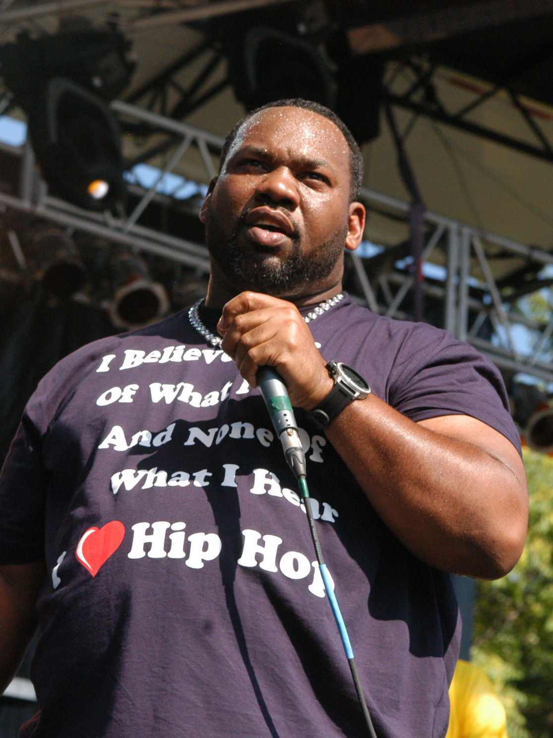 Raekwon at the Pitchfork Music Festival 2010